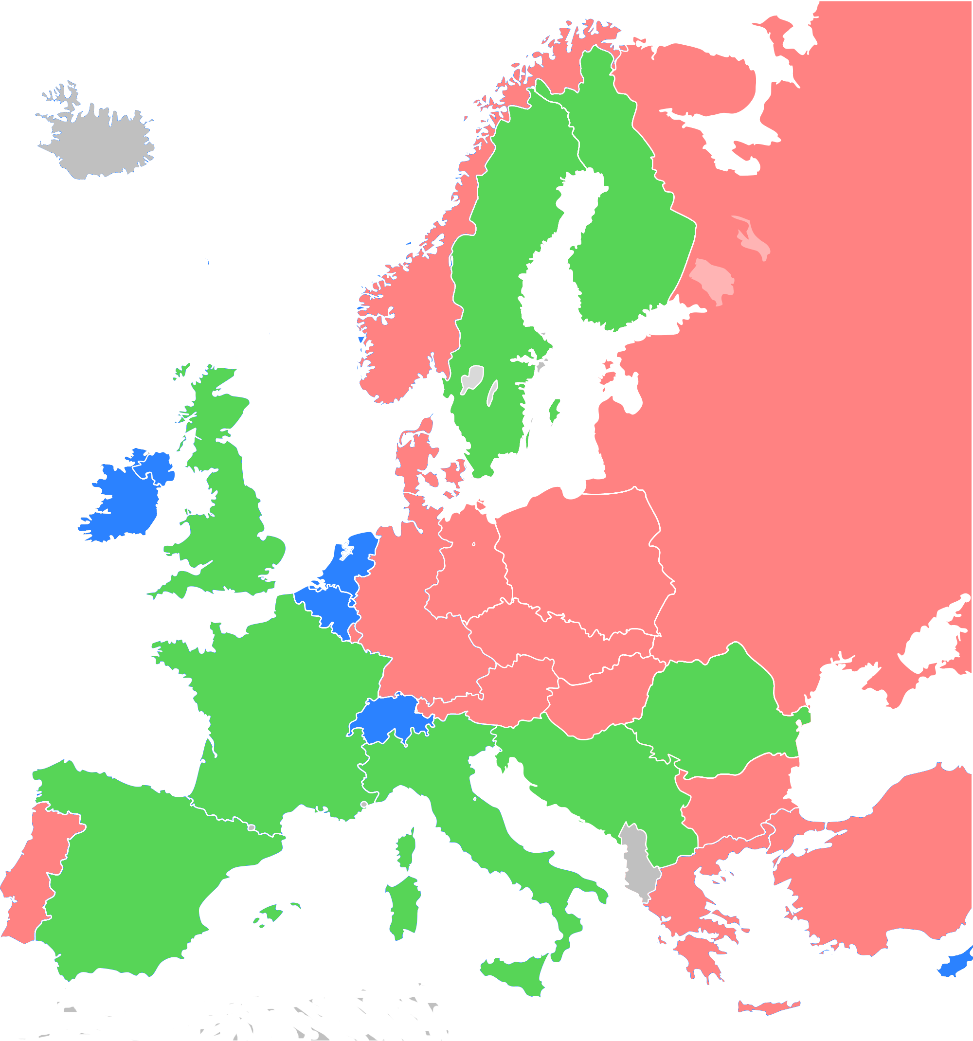 positions of different communist parties at the 1976 Berlin Conference. Red = orthodox camp, Green = Eurocommunist/independent camp, Blue = Neutral camp, Grey = Boycotting the event. Positions indicated as described in Leonhard, Wolfgang. Eurocommunism: Challenge for East and West. New York: Holt, Rinehart, and Winston, 1978. pp. 146-147. Maps based on [1]